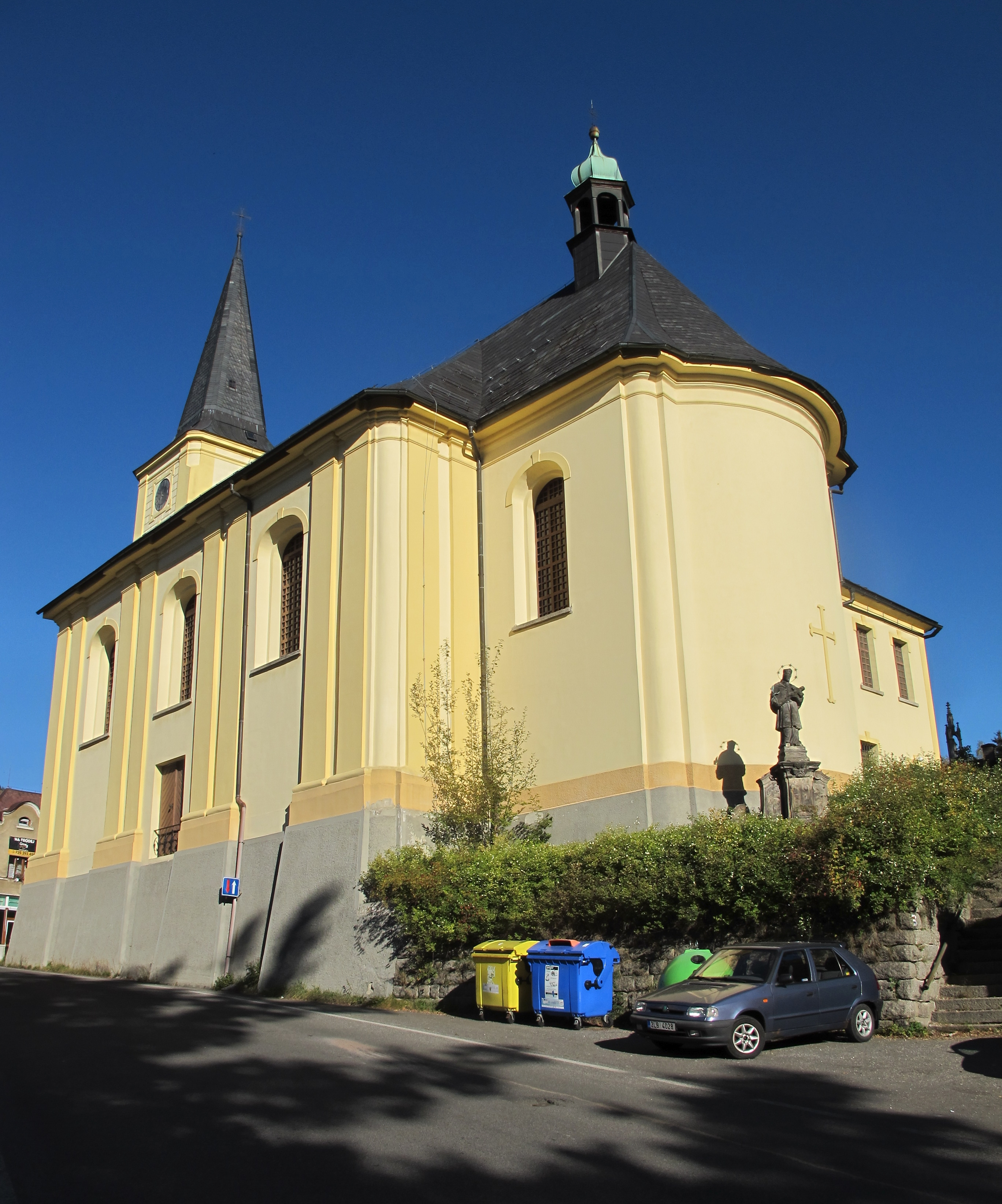 Church in Janov nad Nisou in Jablonec nad Nisou District, Czech Republic